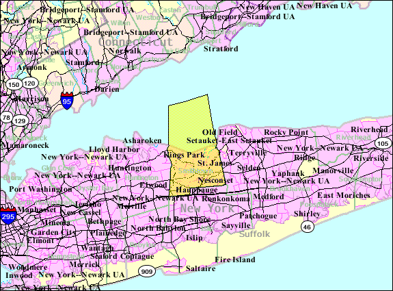 U.S. Census 2000 reference map for Smithtown